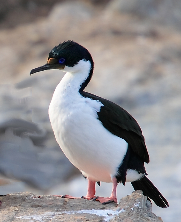 Imperial Shag (Phalacrocorax atriceps), Beagle Channel, southern Argentina